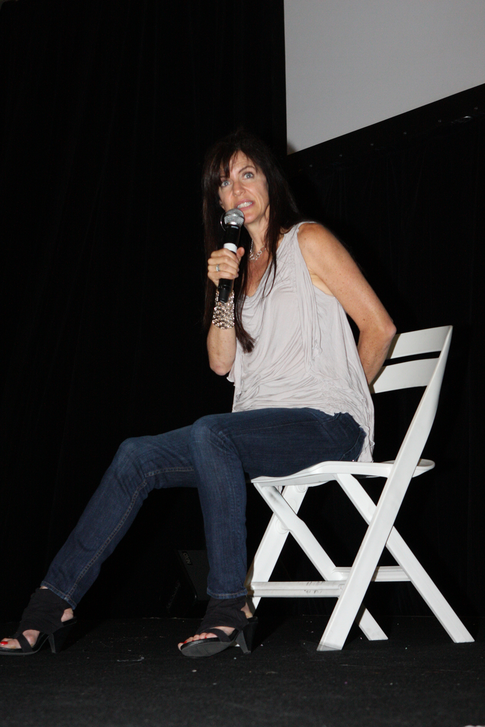 Jennifer Hale, Mass Effect, Star Wars